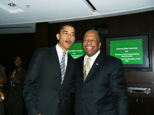 Congressman Elijah Cummings welcomes Senator-elect Barack Obama to Capitol Hill at a November 2004 reception.